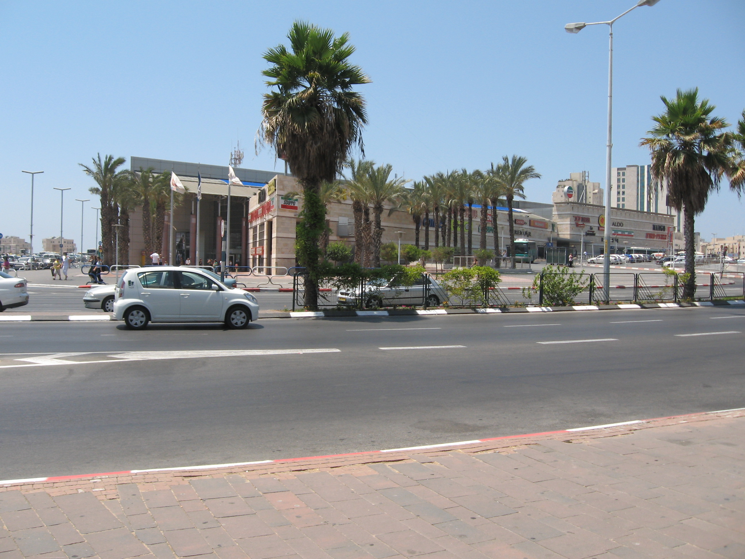 The central bus station.